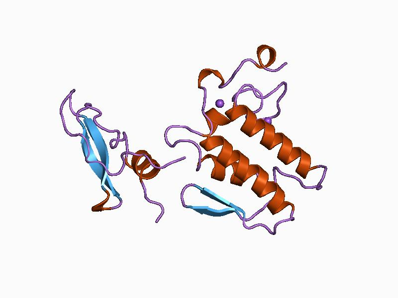 Cartoon representation of the molecular structure of protein registered with 1bun code.